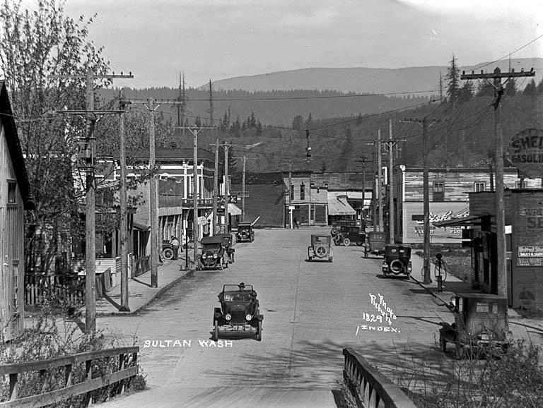 Caption on image: Sultan, Wash. Pickett Photo, Index. 1829 Subjects (LCSH): Sultan (Wash.); Main Street (Sultan, Wash.); Streets--Washington (State)--Sultan